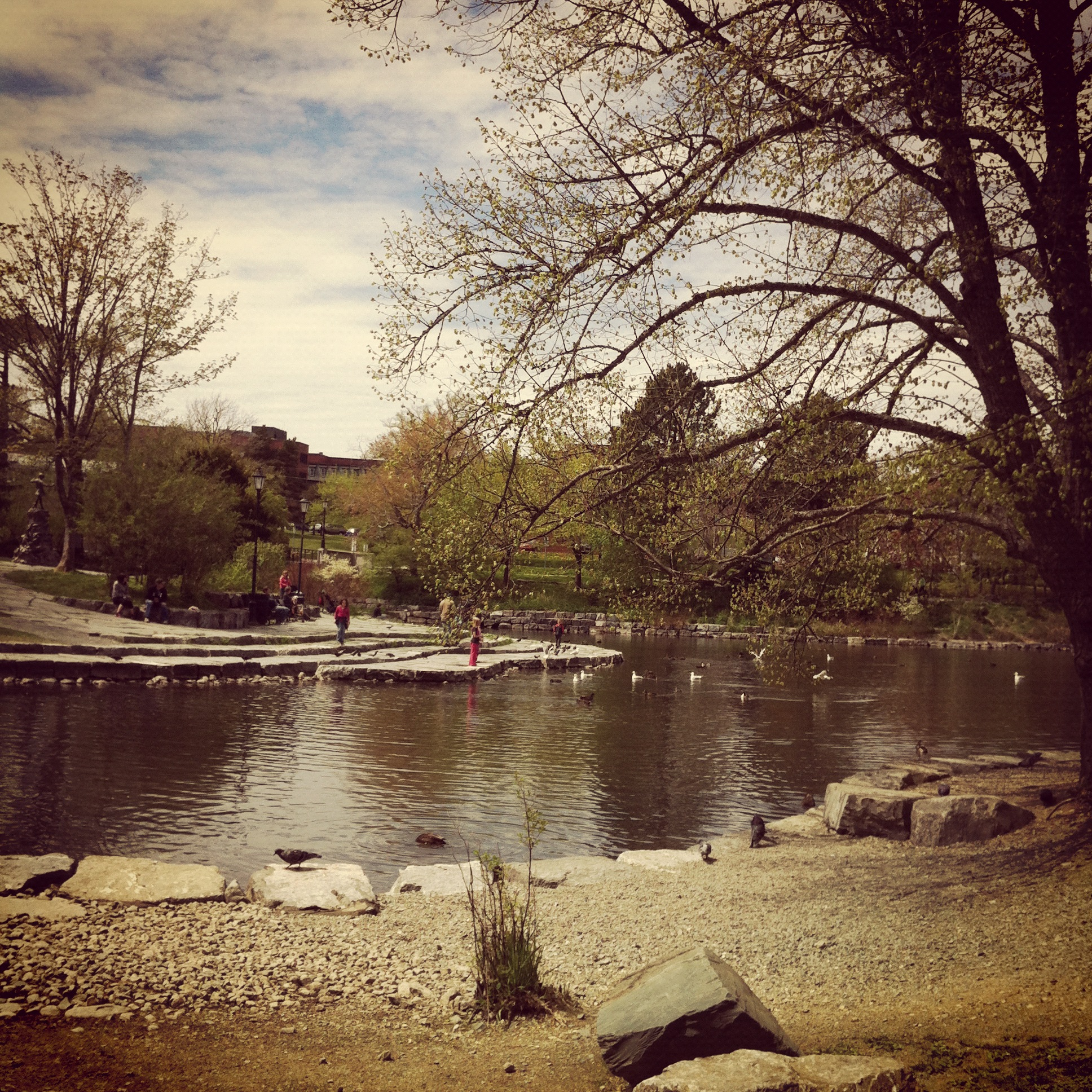 The Duck Pond at Bowring Park, St. John's